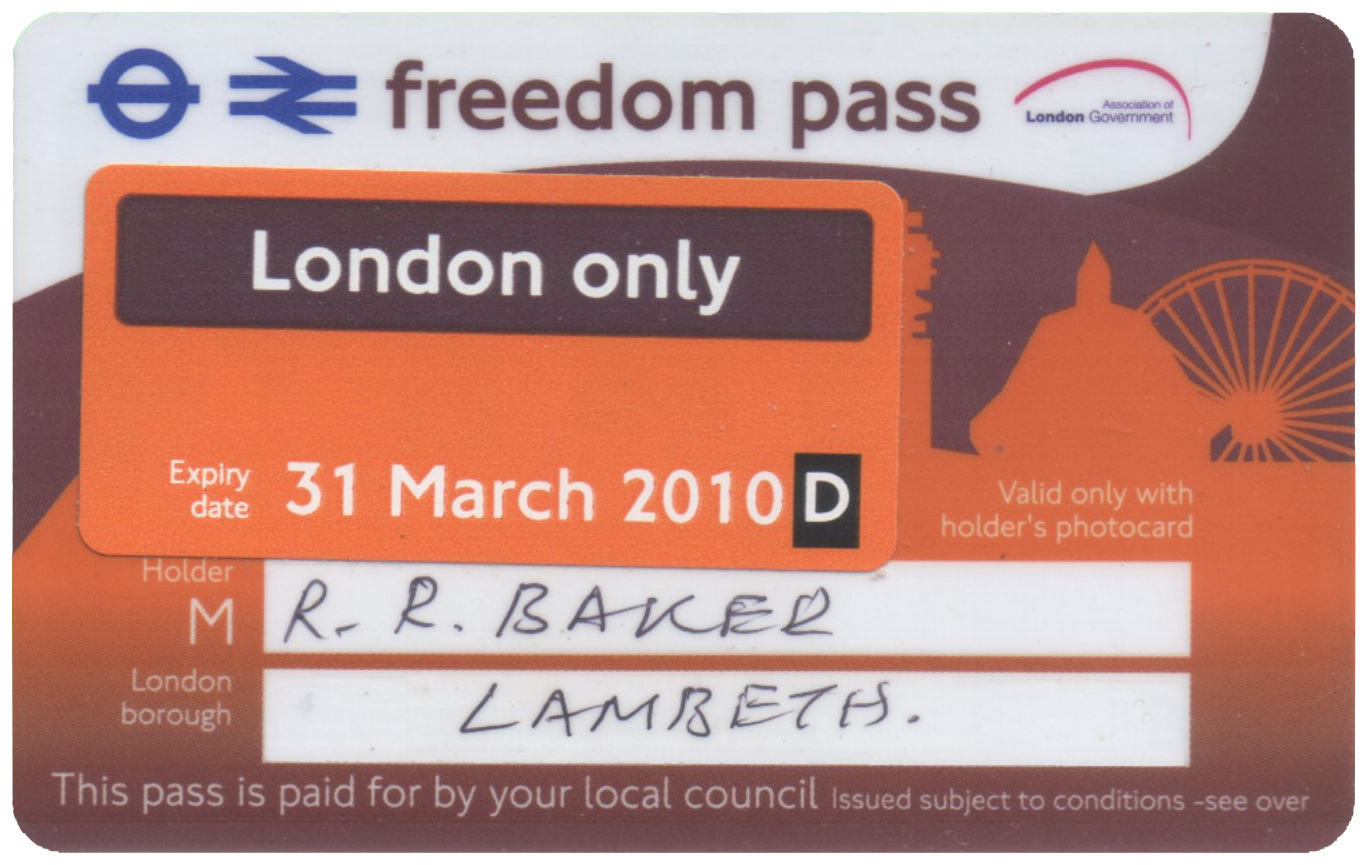 Disabled Person's Freedom Pass (the Elderly Persons' version is in shades of blue rather than orange and has an 'E' enstead of a 'D'), issued by the London_Borough_of_Lambeth in March 2006 and renewed (with a sticker indicating this) in March 2008. Lambeth Council do not subscribe to the England-wide scheme whereby permits from one town can be used in another, and the "London Only" indicates this.